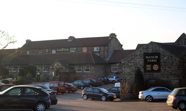 Manor Farm public house, Old Denaby, South Yorkshire, seen from the southeast